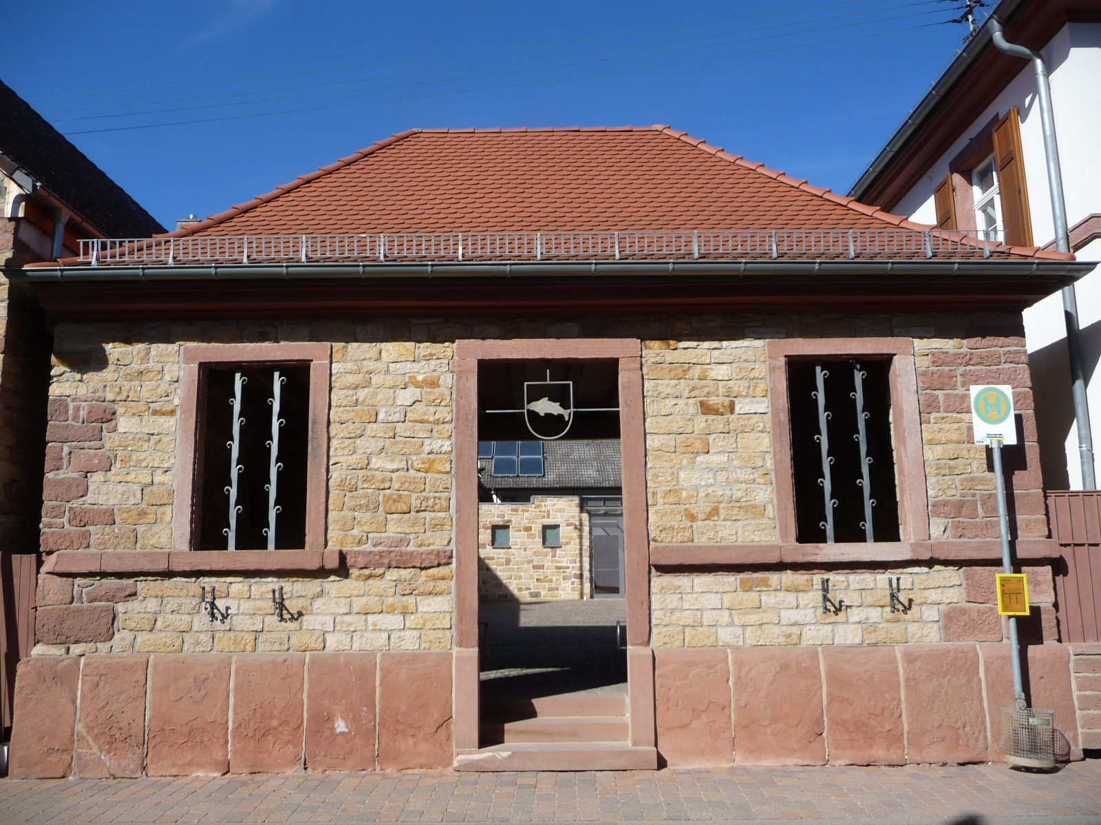 townhall of Kleinfischlingen in Rhineland-Palatinate, Germany